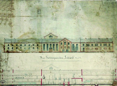 Braunschweigische Maschinenbauanstalt - Roesukkerfabrikken Lolland 1872